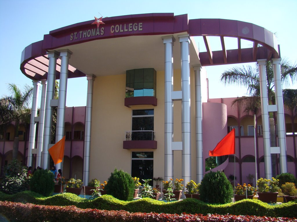 STC admin block